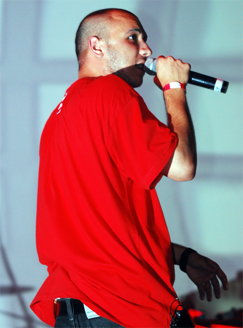 Rapper Guess Who on stage at his 2009 album release concert in Bucharest, Romania.